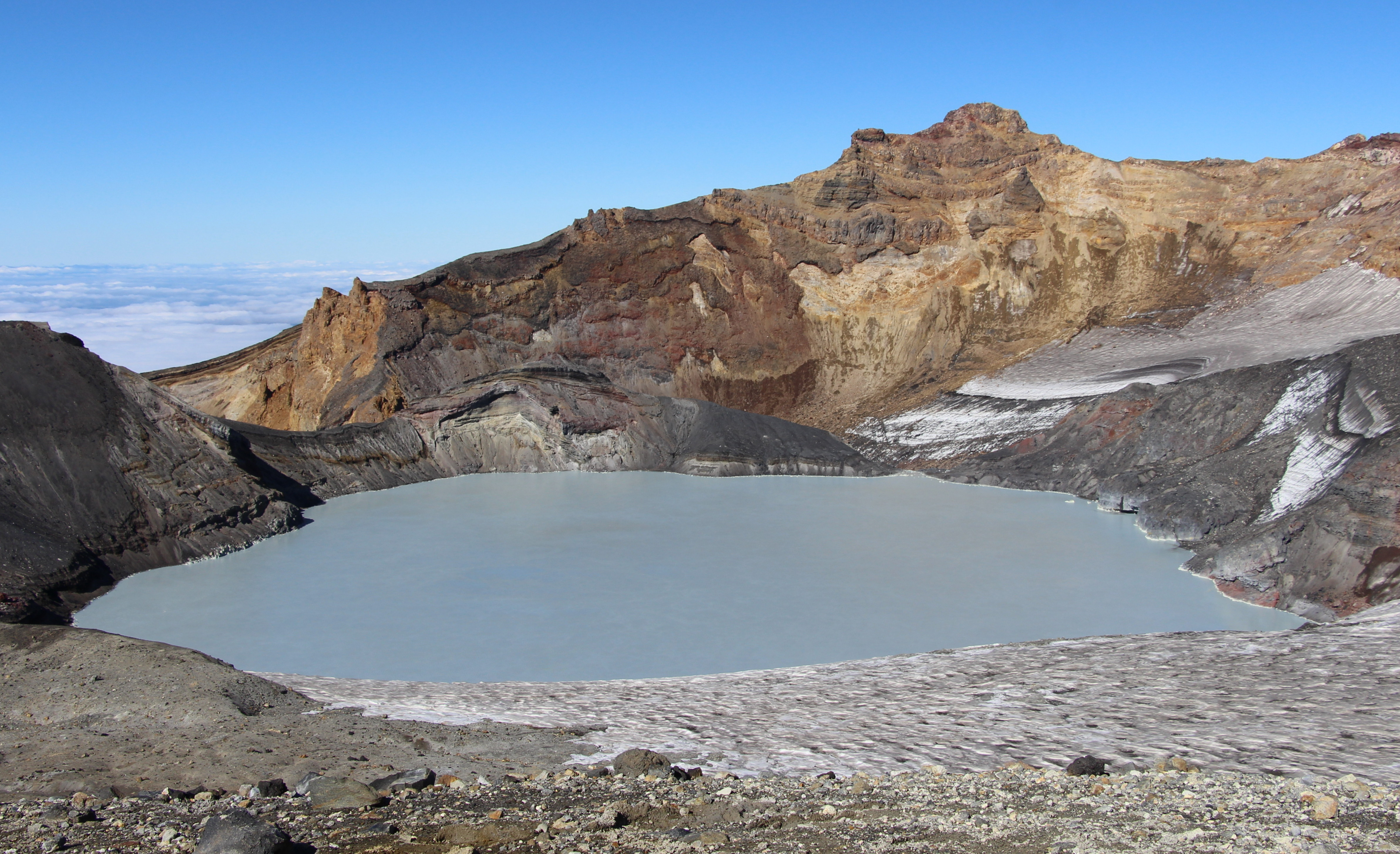 Crater Lake. Ruapehu, New Zealand